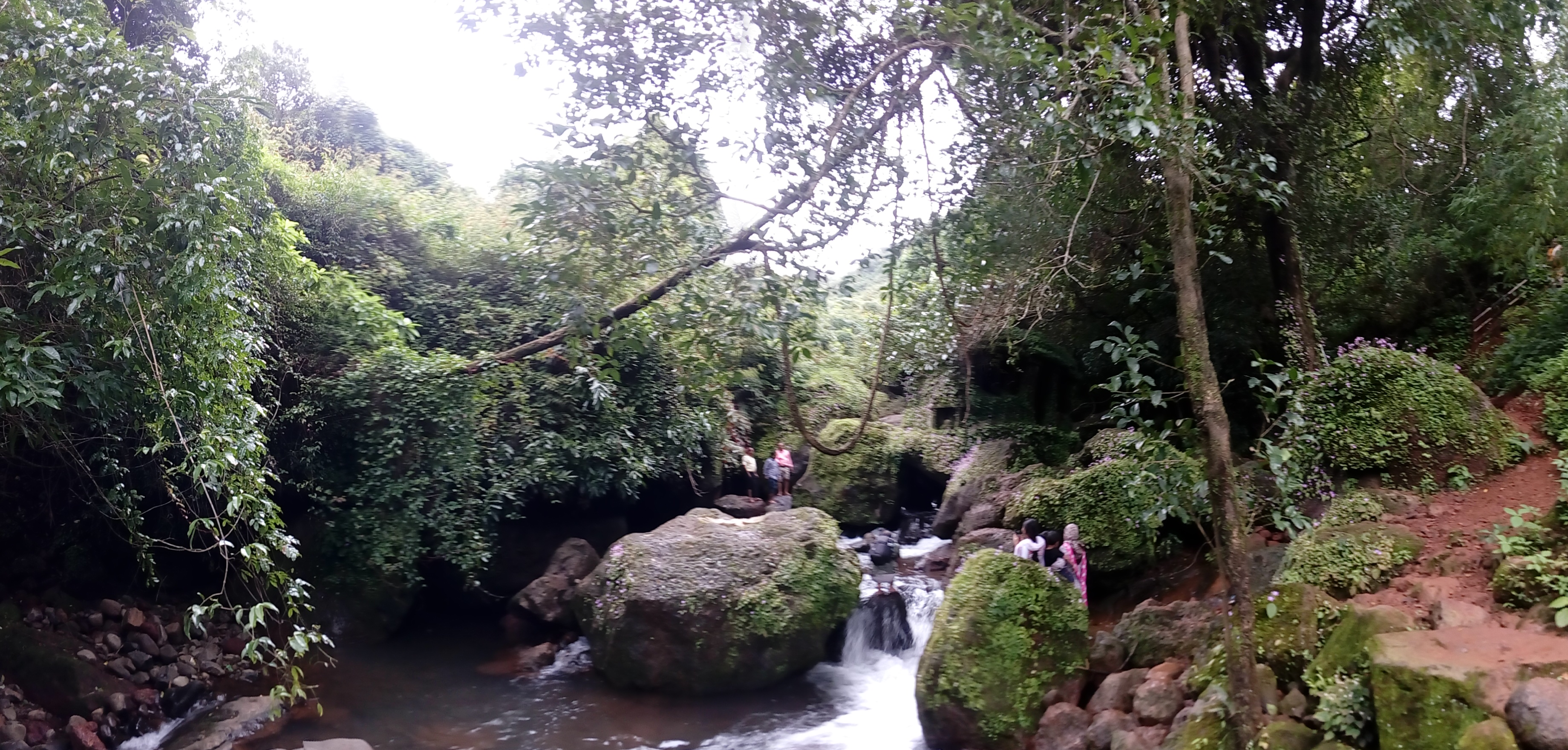 Pandav Caves in monsoon